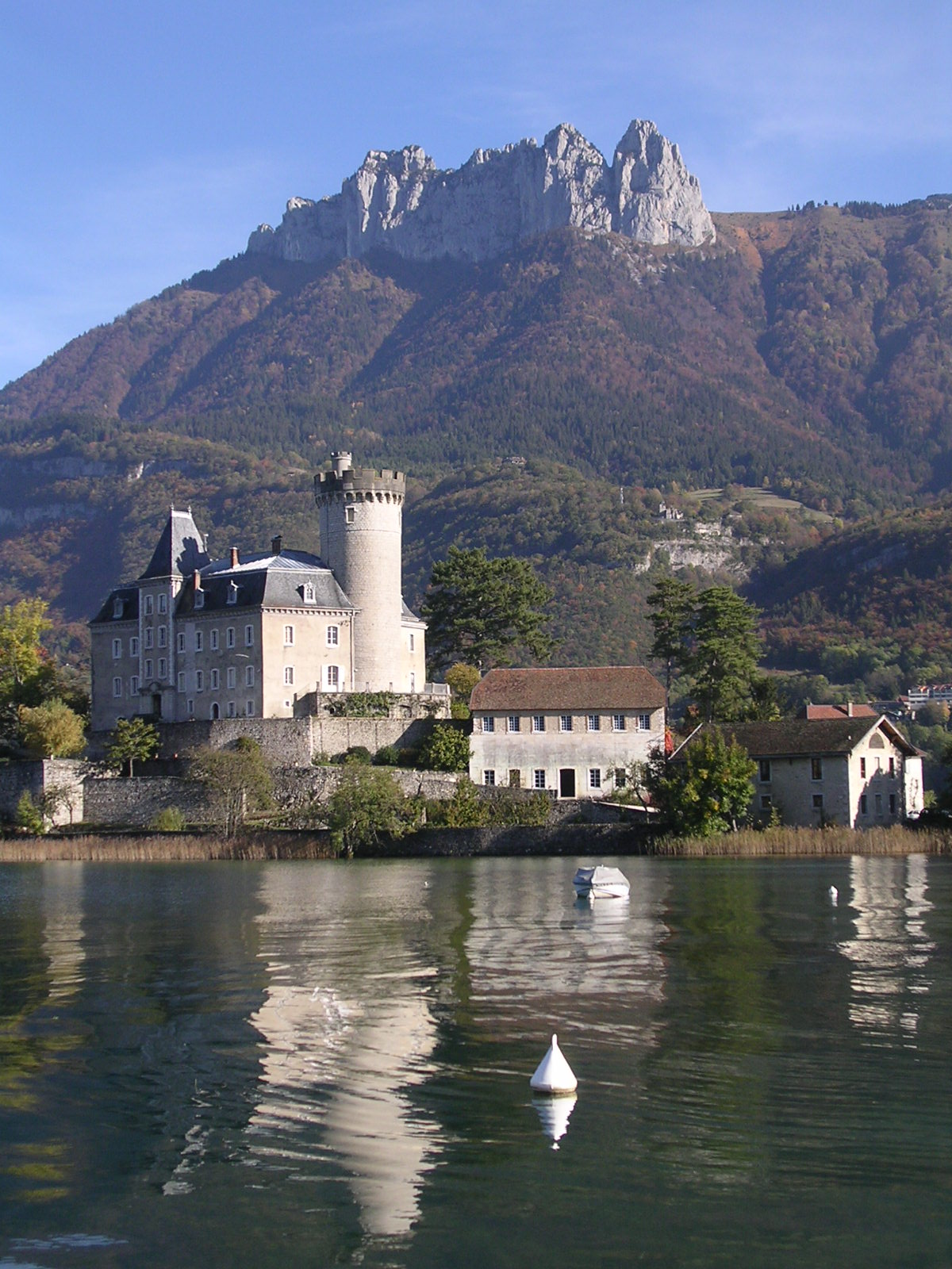 Ruphy castle in Duingt, alongside of the lake Annecy